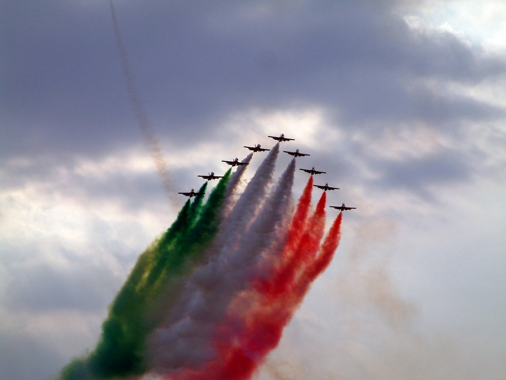 The Frecce Tricolori aerobatic team performs at the Airpower05 air show.